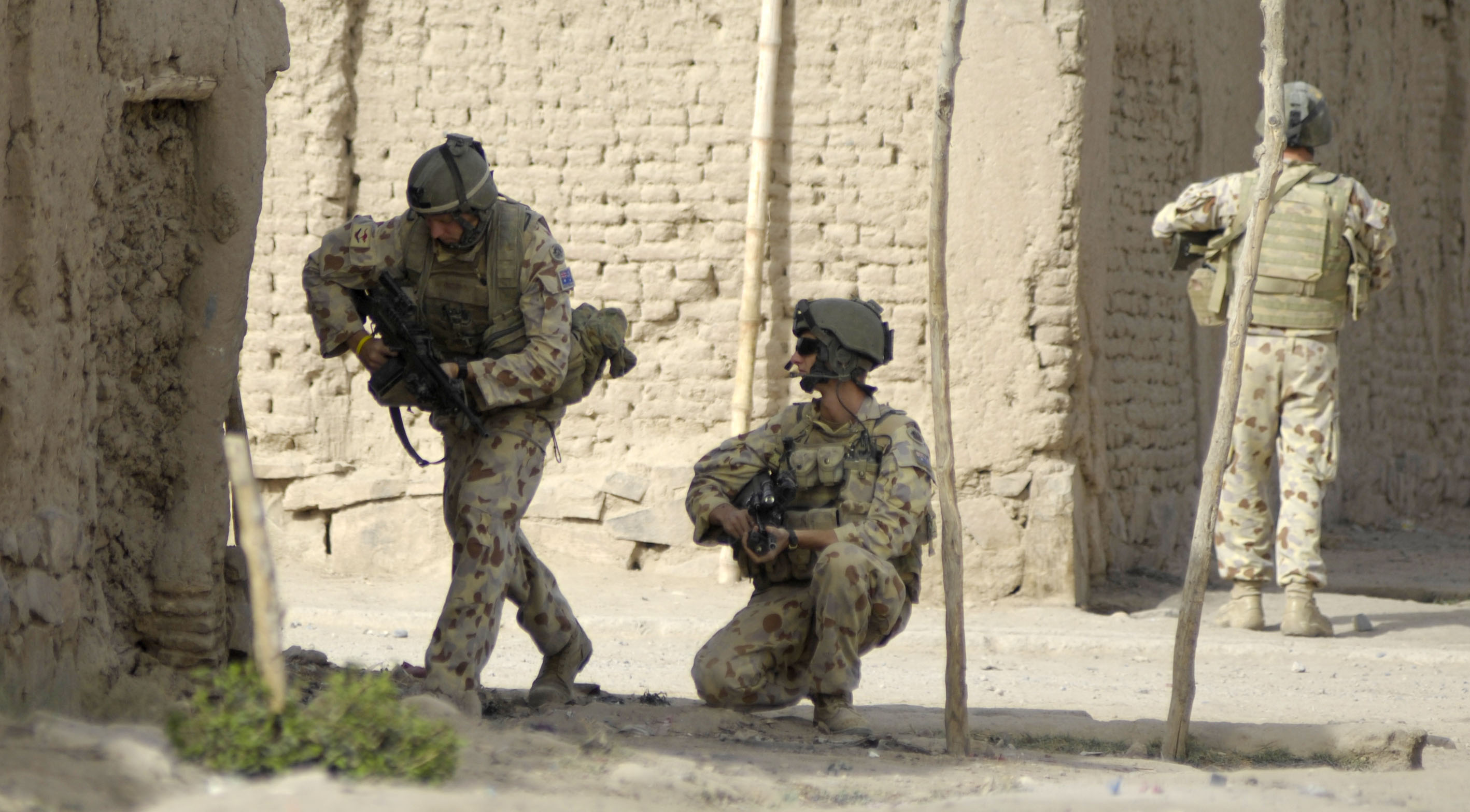 International Security Assistance Force soldiers from 2nd Platoon, 3rd Battalion (Para), Royal Australian Regiment set up security during a foot patrol of the town of Tarin Kowt, Aug. 16, 2008.